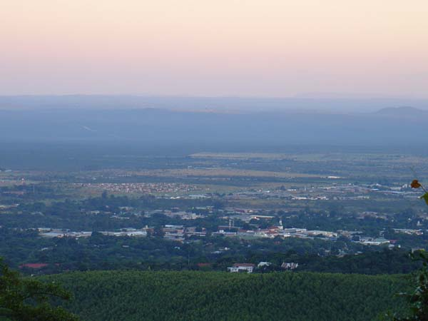 Makhado